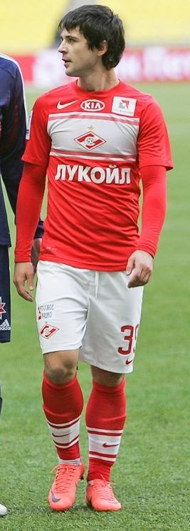 Igor Gorbatenko playing for FC Spartak Moscow.